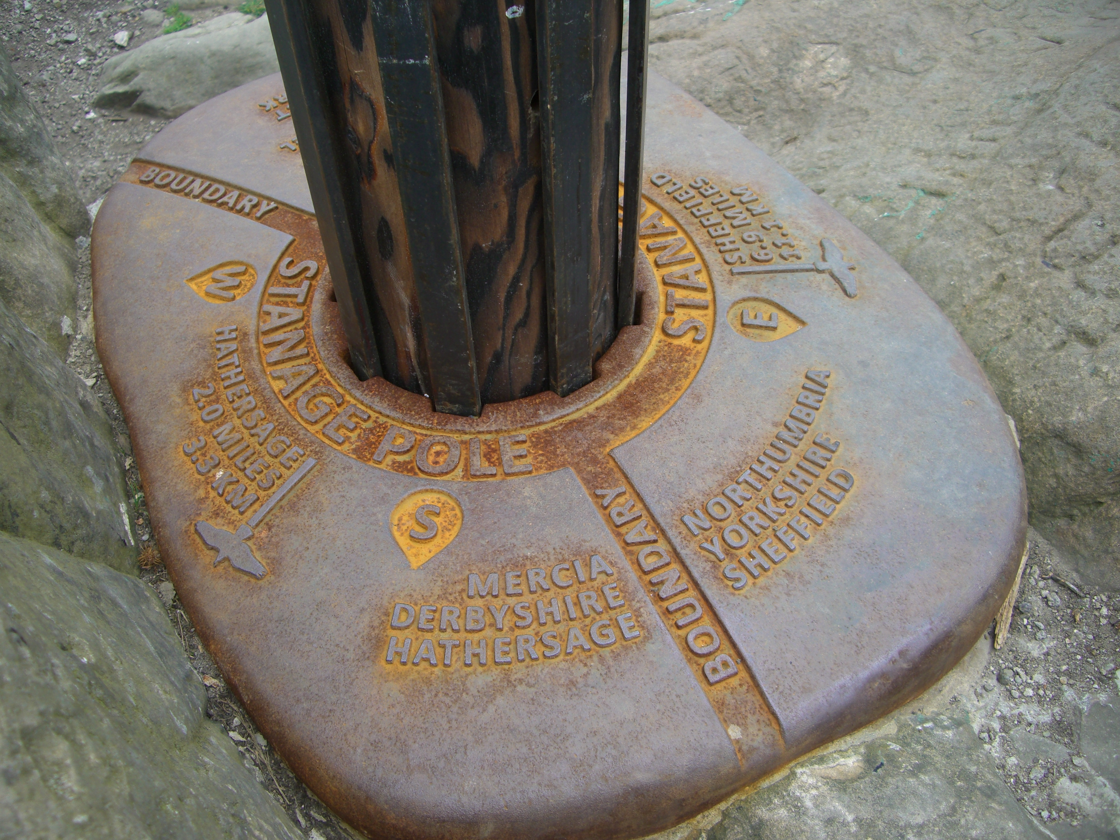 This is the new base of Stanage Pole on Hallam Moors near Sheffield.